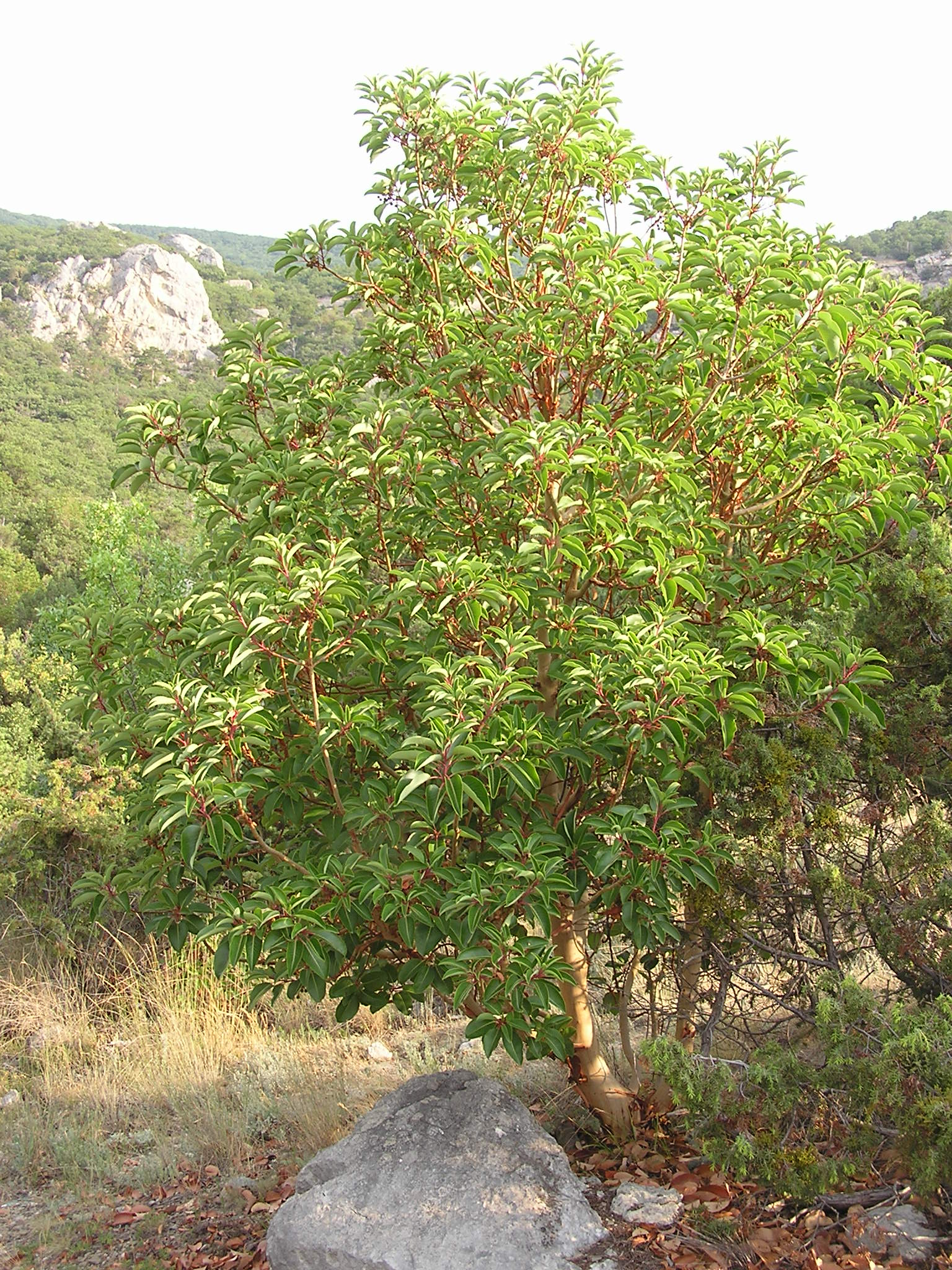 Grecian Strawberry Tree (Cyprus Strawberry Tree). Photo taken in Laspi bay